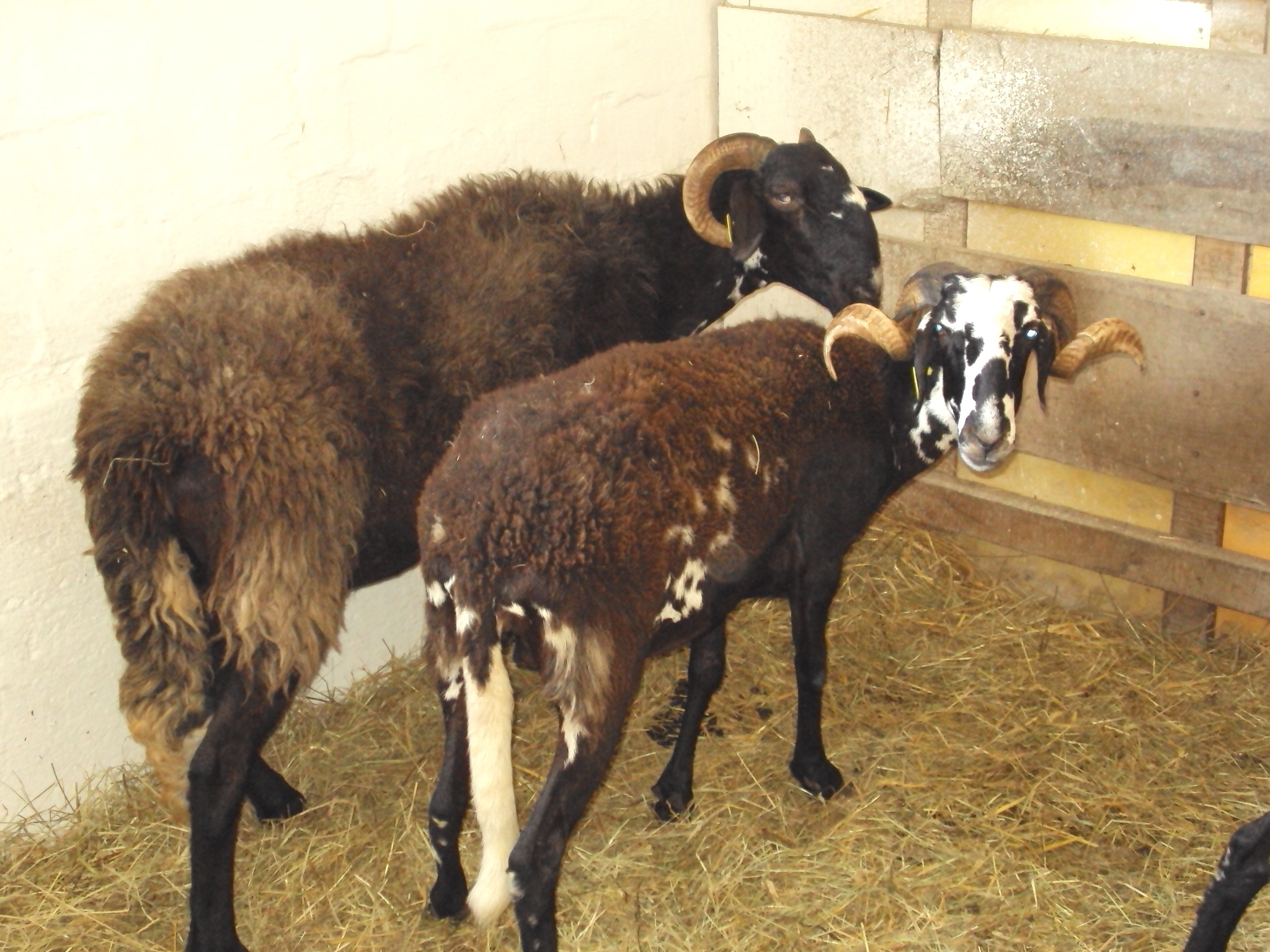 Istrian Sheep, sheep breed originating in Istria (Istra) Region, Croatia (exhibited at Agriculture Fair in Bjelovar, Croatia).